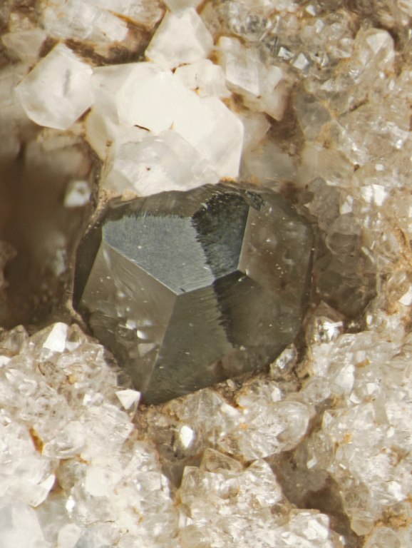 Bixbyite (picture width: 4.1 x 5.3 mm) Locality: Wah Wah Mountains, Beaver County, Utah, USA